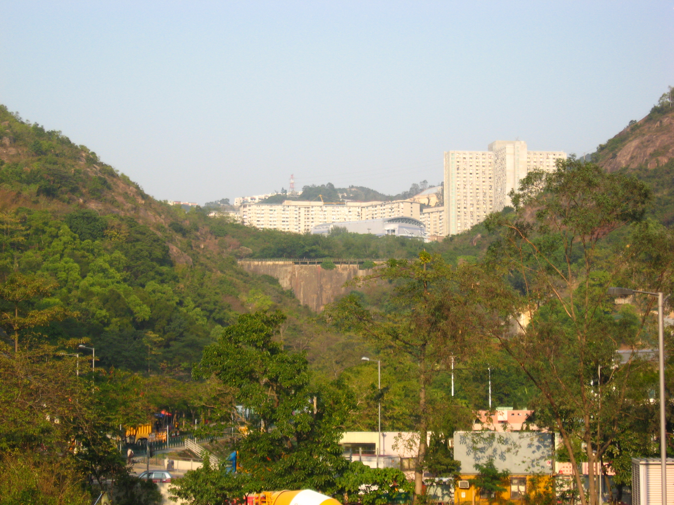 Jordon Valley, Hong Kong